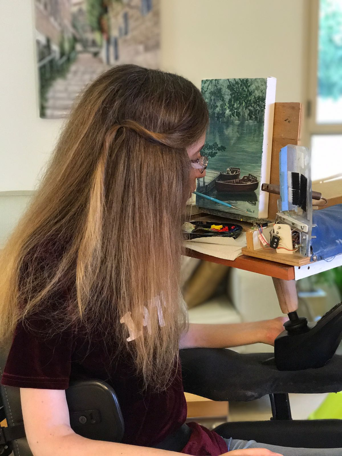 Netta Ganor Mouth Painting